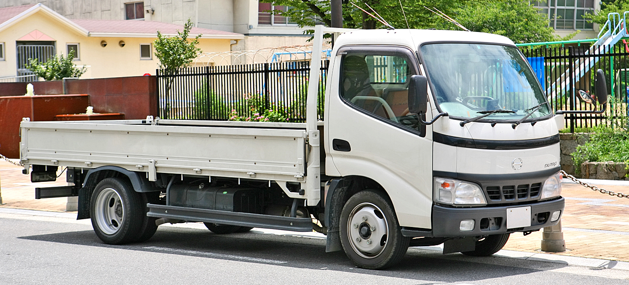 Hino Dutro 2 ton long